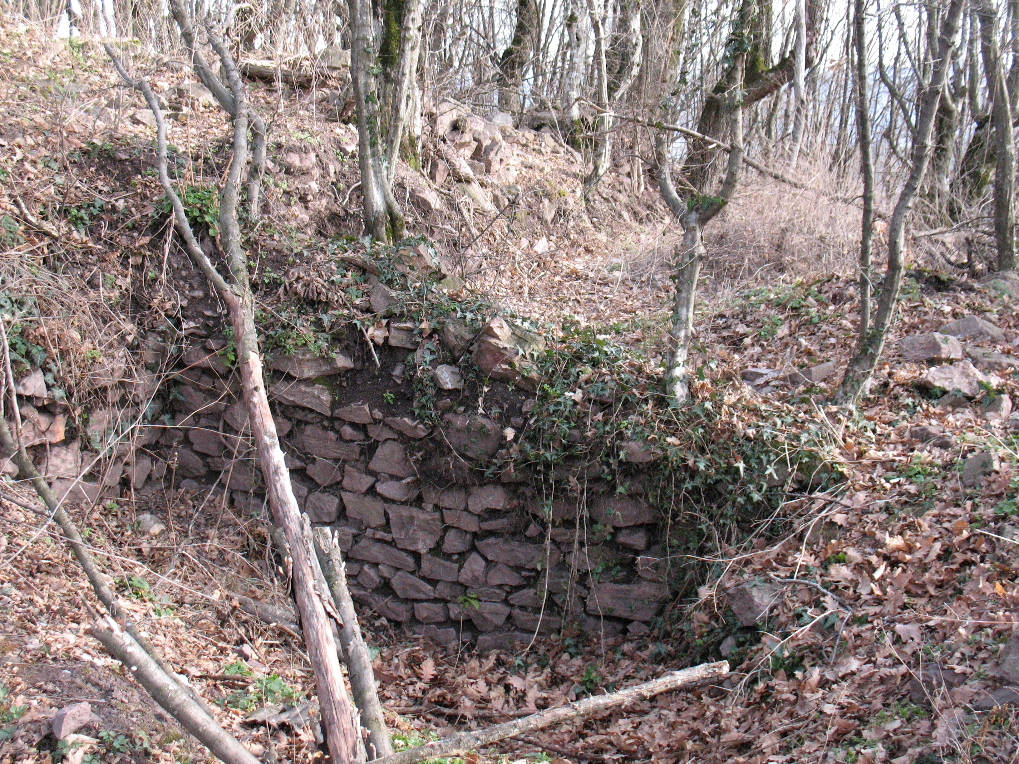 Ruins from the citadel fortress Borovets, near Pravets, Bulgaria